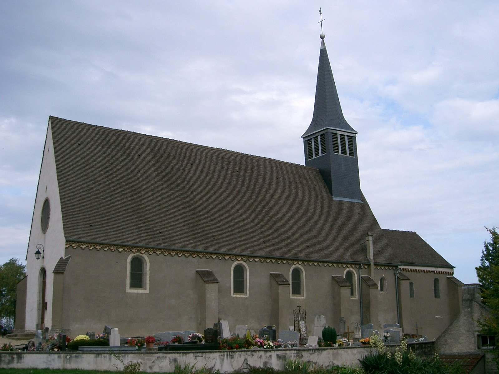 Chivres church - Burgundy